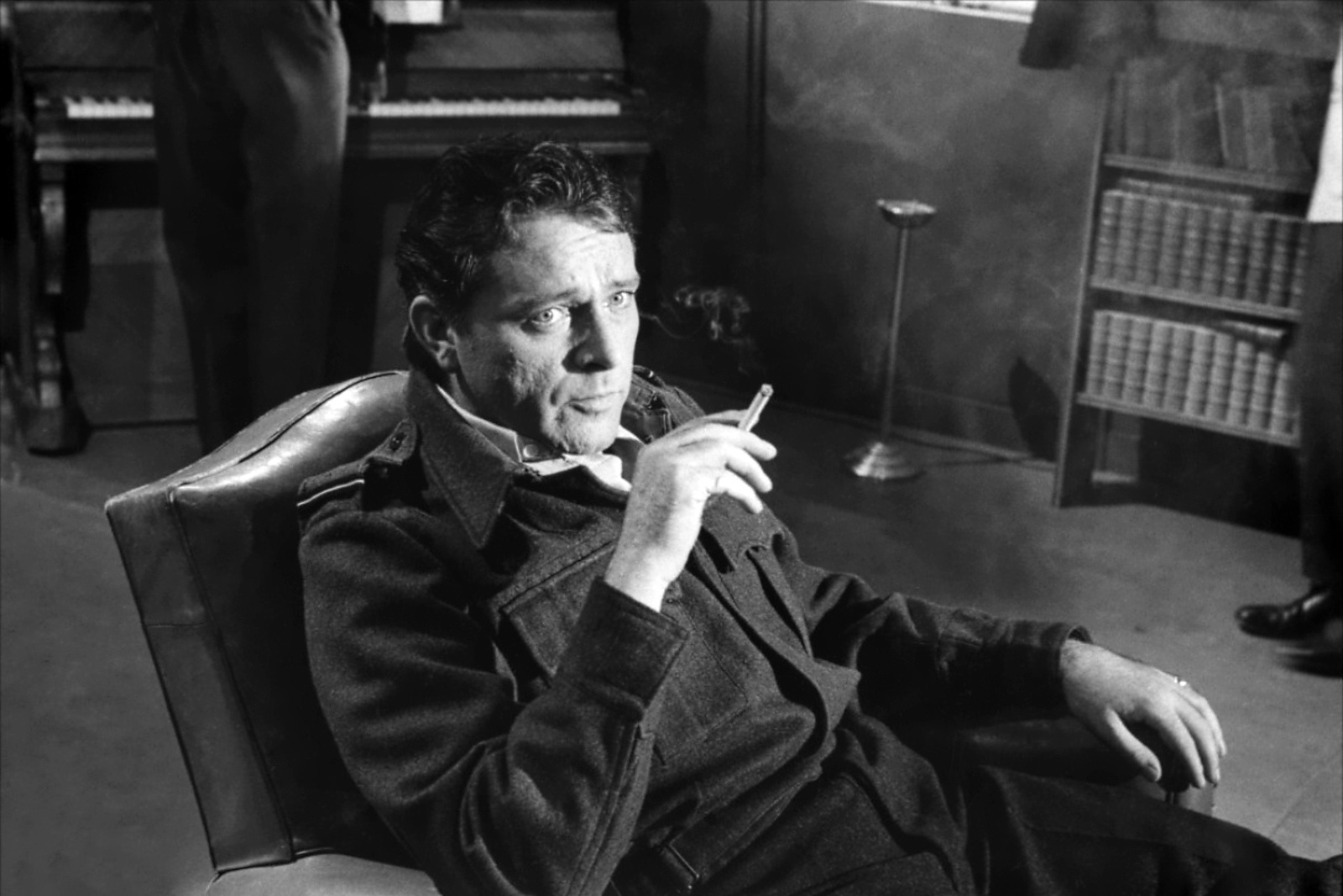 Trailer Screenshot of Richard Burton in The Longest Day (1962).